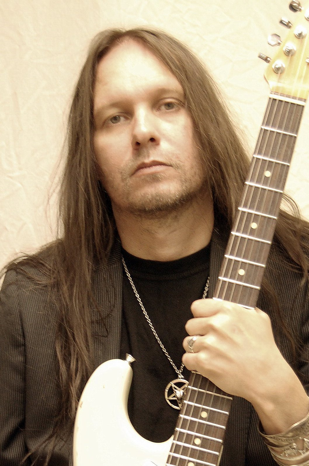 Mike Wead posing with guitar, Stockholm